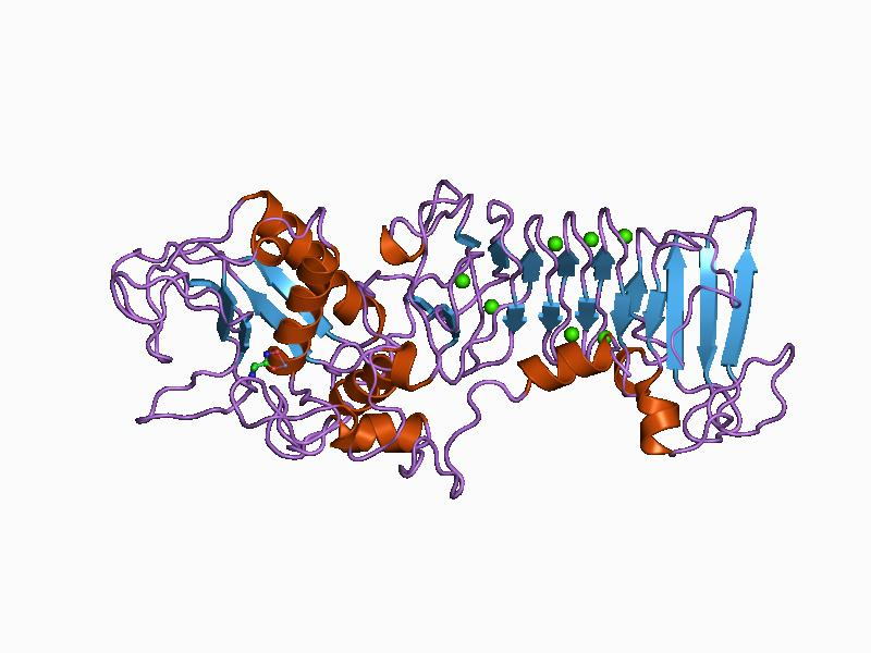 Cartoon representation of the molecular structure of protein registered with 1af0 code.